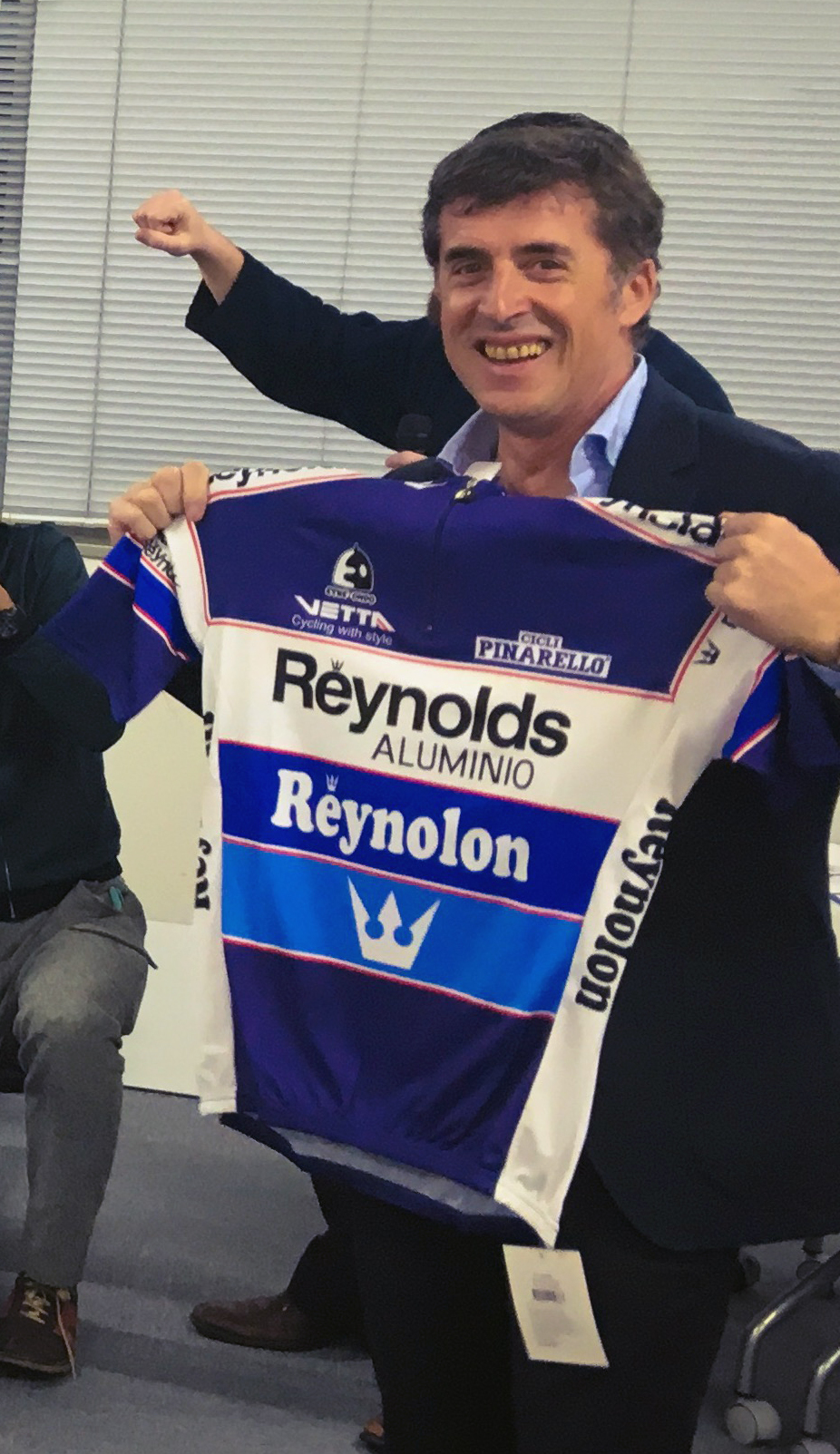 Los asistentes a la charla compiten a piedra, papel y tijera para ganar un maillot firmado por Pedro Delgado.